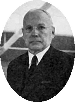 Aukusti Asko-Avonius (1887–1965), Finnish businessman, founder of the furniture and appliance company Asko.